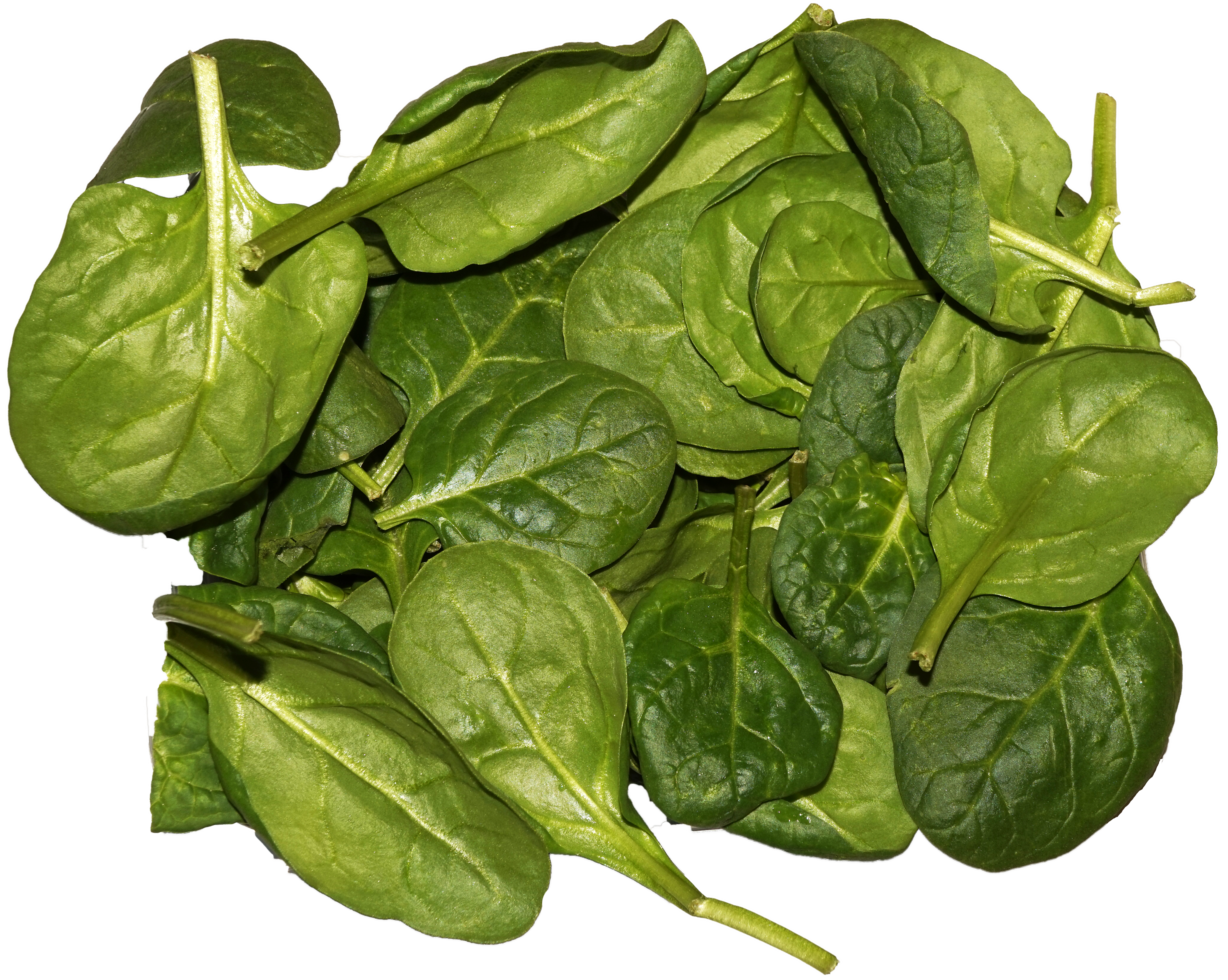 Spinach leaves.